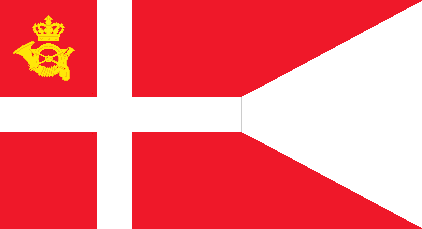 Flag of the danish postal service. Own drawing, reference drawing